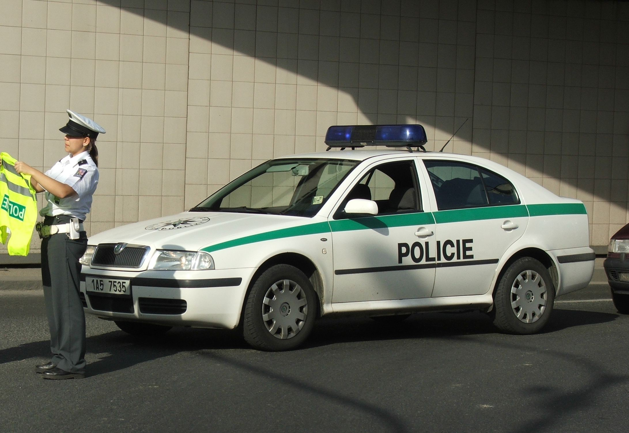 Police Car of the Czech state police in the streets of Prague - Škoda Octavia I.